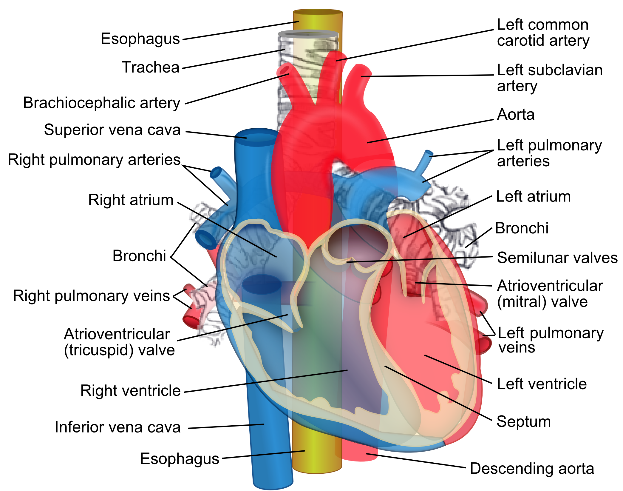 Relations of the aorta, trachea, esophagus and other structures of and around the heart. Anterior view. Structures are appearing as transparent in order to visualize overlapping structures, but are not transparent in reality.